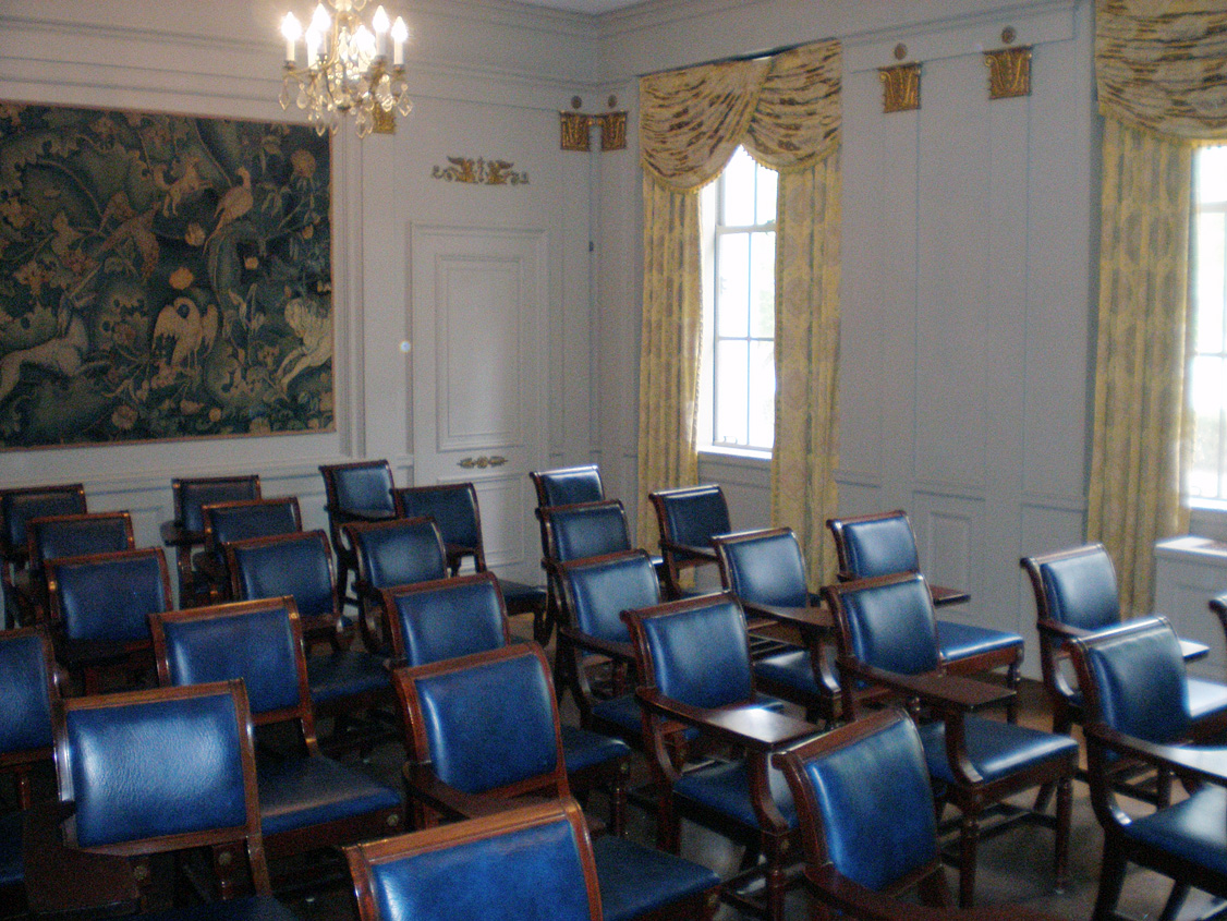 French Nationality Room at the University of Pittsburgh